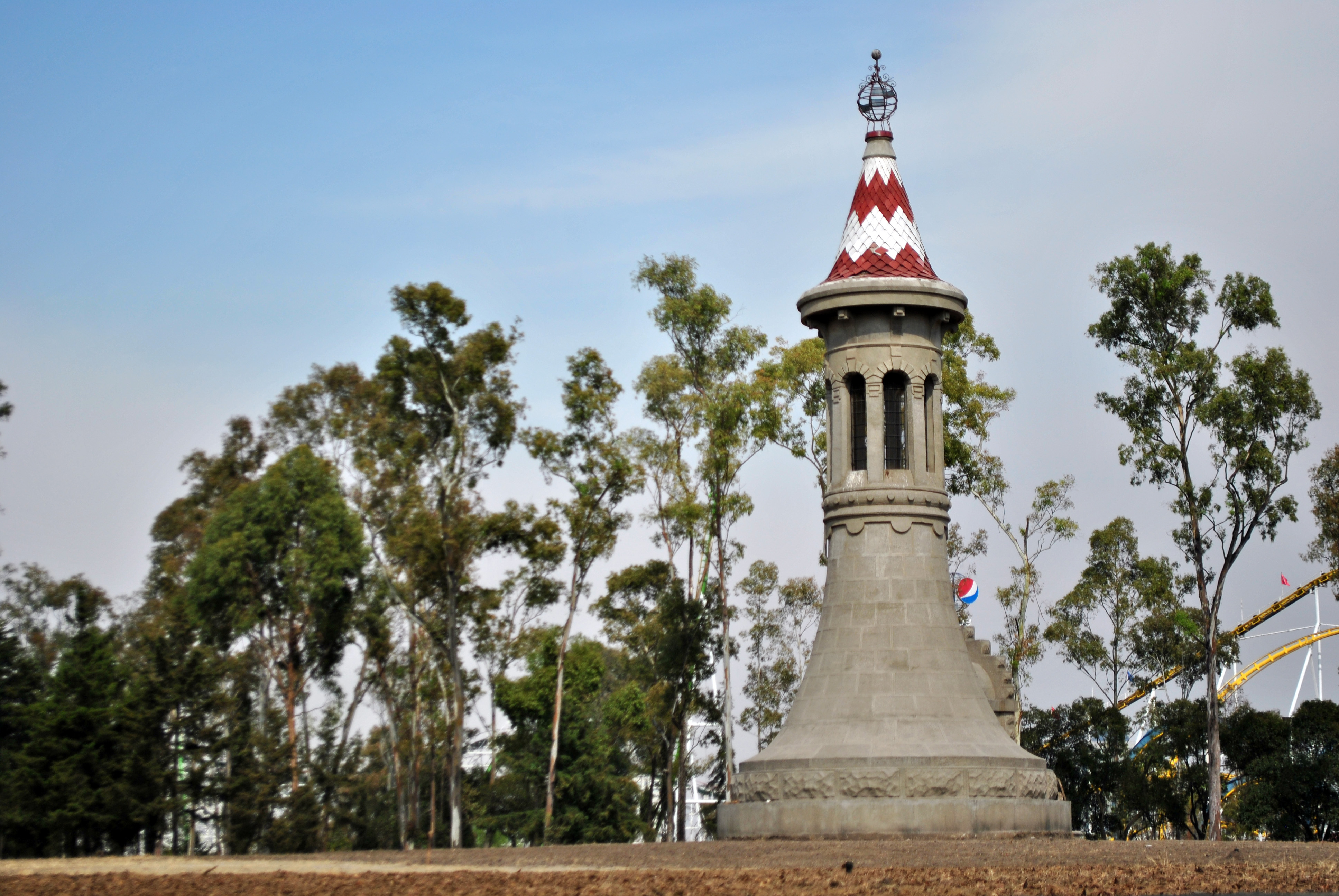 Water storage tanks in the Cárcamo of Dolores. Bosque de Chapultepec, Second Section, Mexico City.